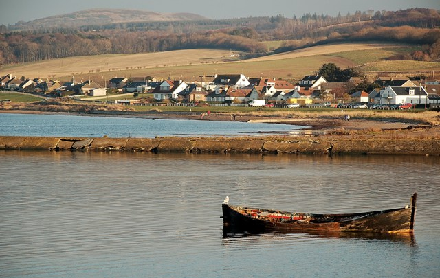 Maidens View Looking from the harbour wall across the bay towards Ardlochan Road. Viewed from outside the square.